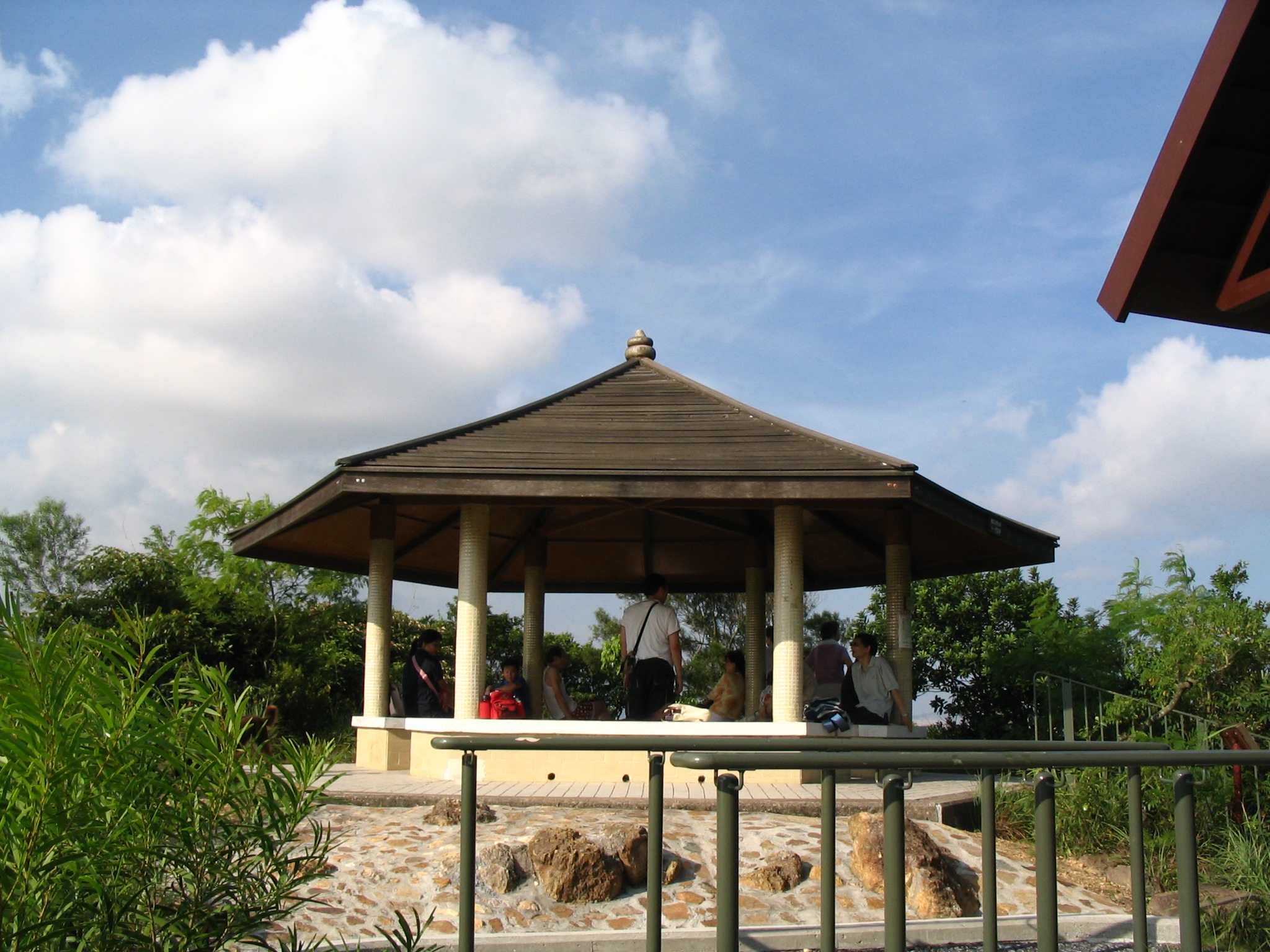 Photo of Lung Fu Shan